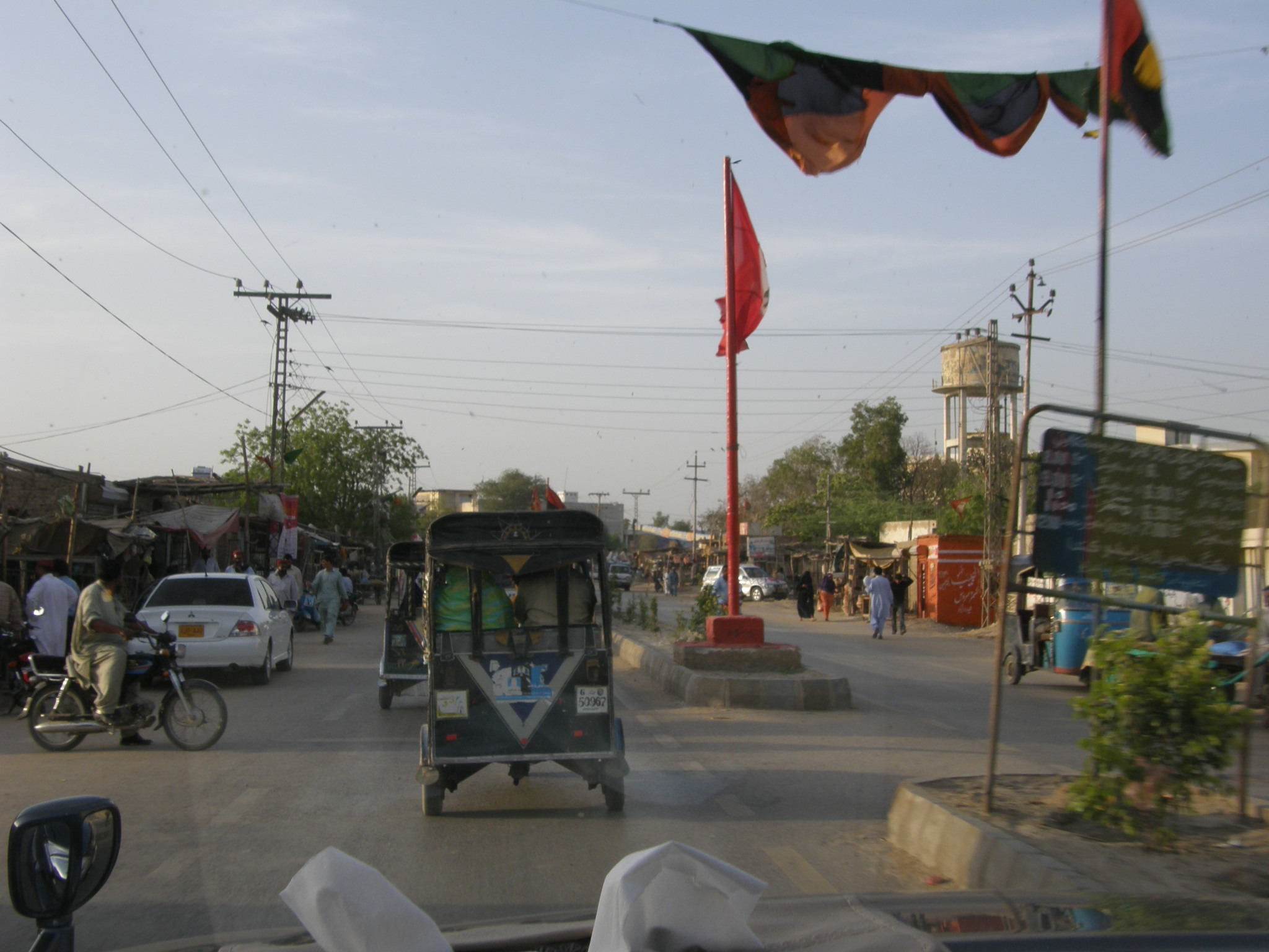 A typical auto-rickshaw in Hyderabad, Pakistan